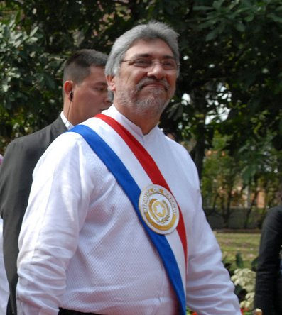 The President Fernando Lugo on his first day in government, Asunción.